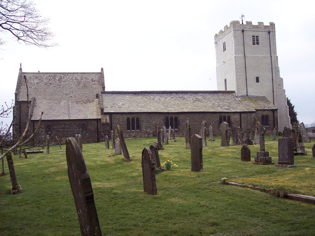 The Parish Church, Orton The church is dedicated to All Saints. This dedication is not inappropriate to a rural community, for traditionally the farming year ends in October, and the first Saint's Day thereafter is on the first of November - the festival of All Saints. The original church was probably a primitive structure, and it was not until the early 13th century that a permanent stone edifice was built. In 1876-78 the church went through a period of widespread restoration.